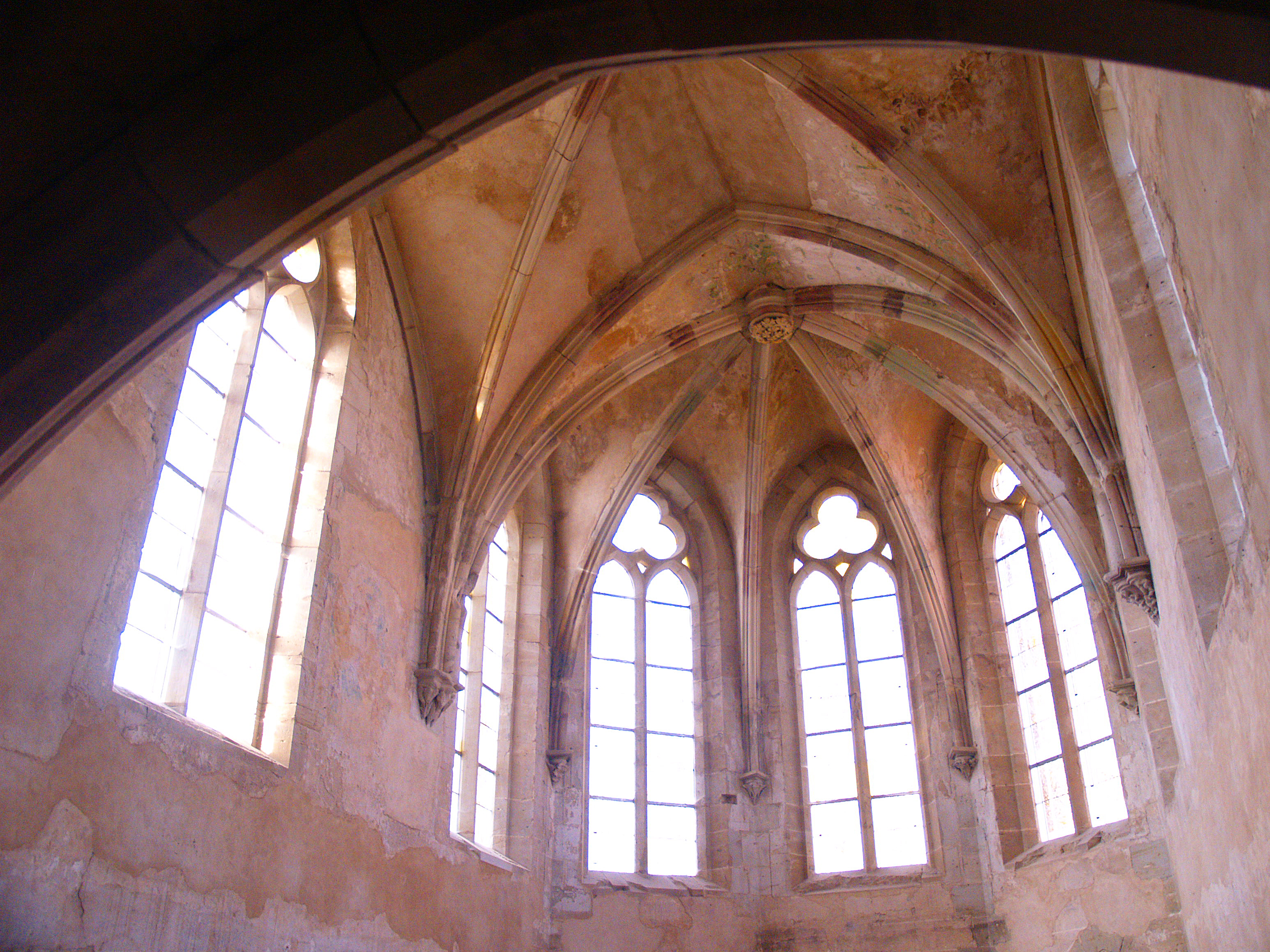 temple church mücheln (germany/ saxony-anhalt), interior view of the front